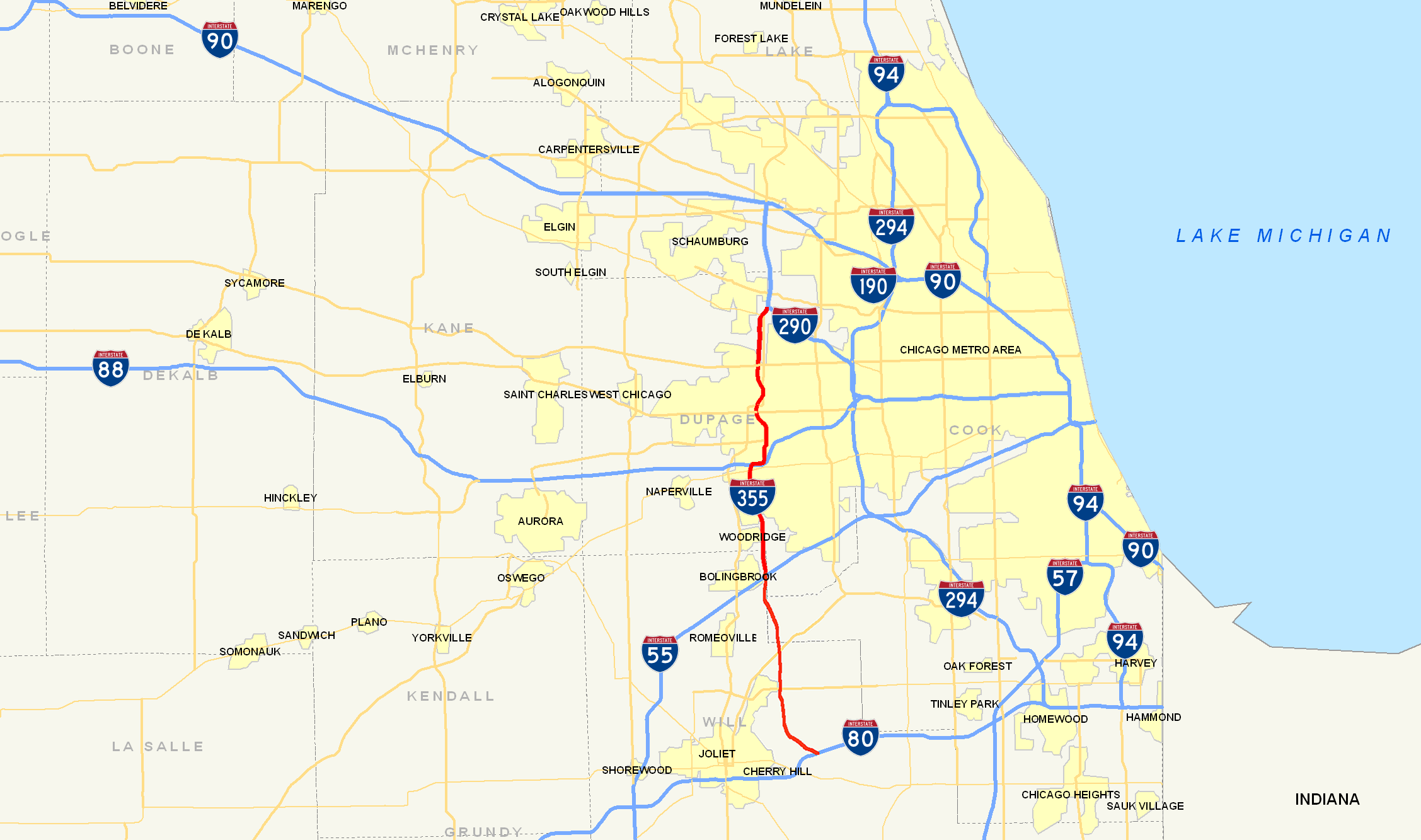 Interstate 355 in the Chicagoland metro area